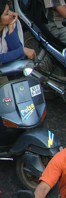 girl on a LML Pulse